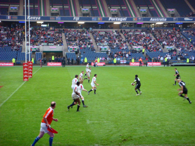 Action from International Rugby Sevens Final, England versus New Zealand, Murrayfield, Edinburgh]